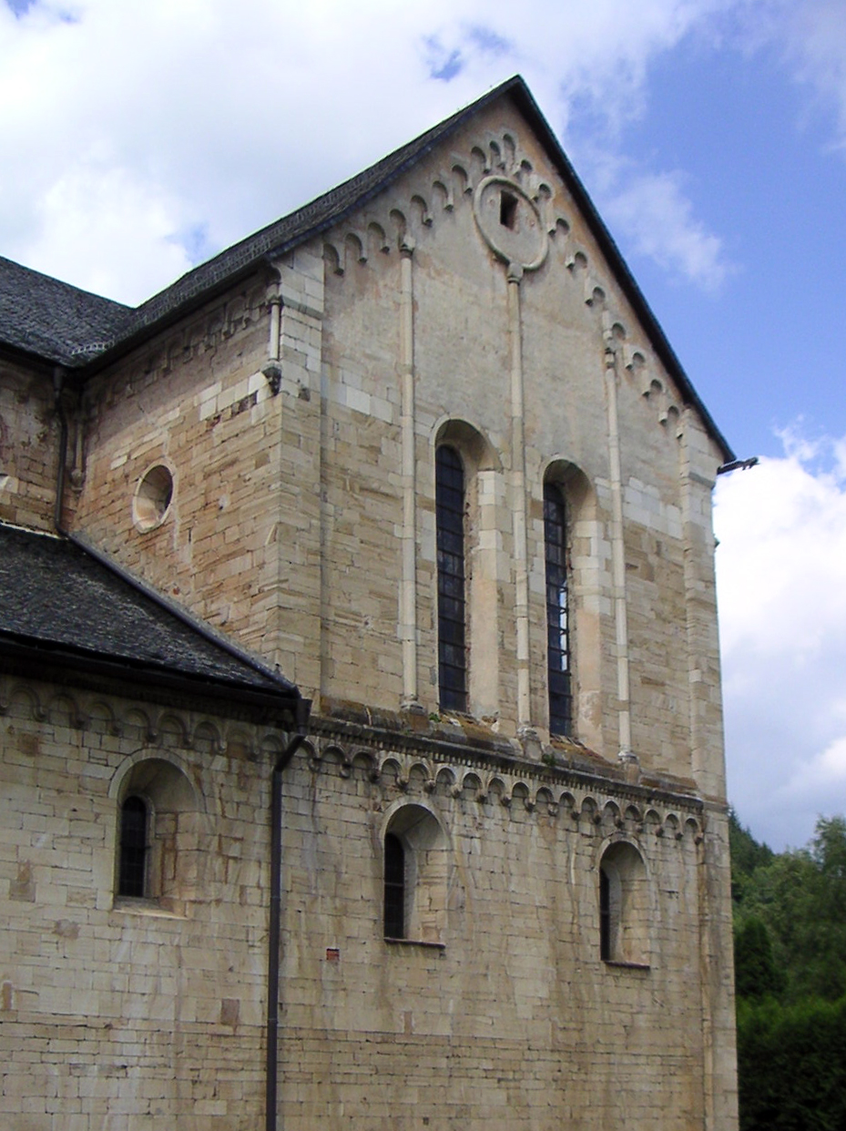 Facade of the Gurk cathedral, Carinthia, Austria